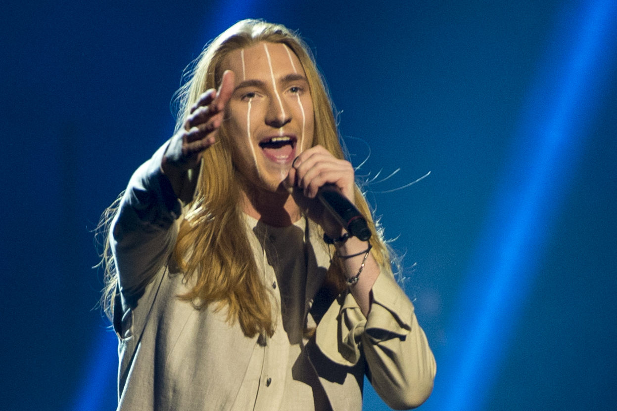 Ivan representing Belarus with the song "Help You Fly" during a rehearsal before the second semi final of the Eurovision Song Contest 2016 in Stockholm. (Help translate this text)